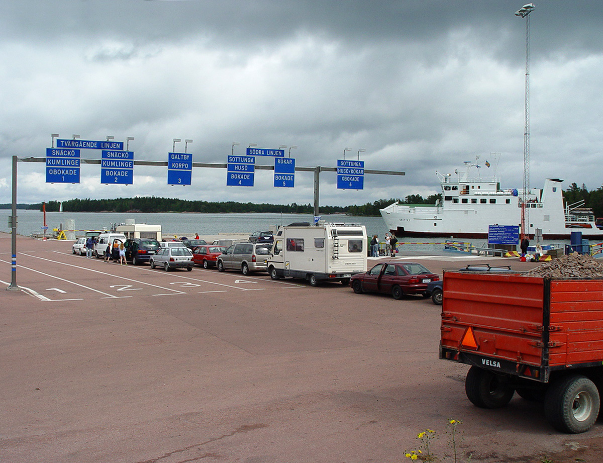 Åland: Ferry route Södra Linjen from Långnäs to Kökar, Ferry in Långnäs